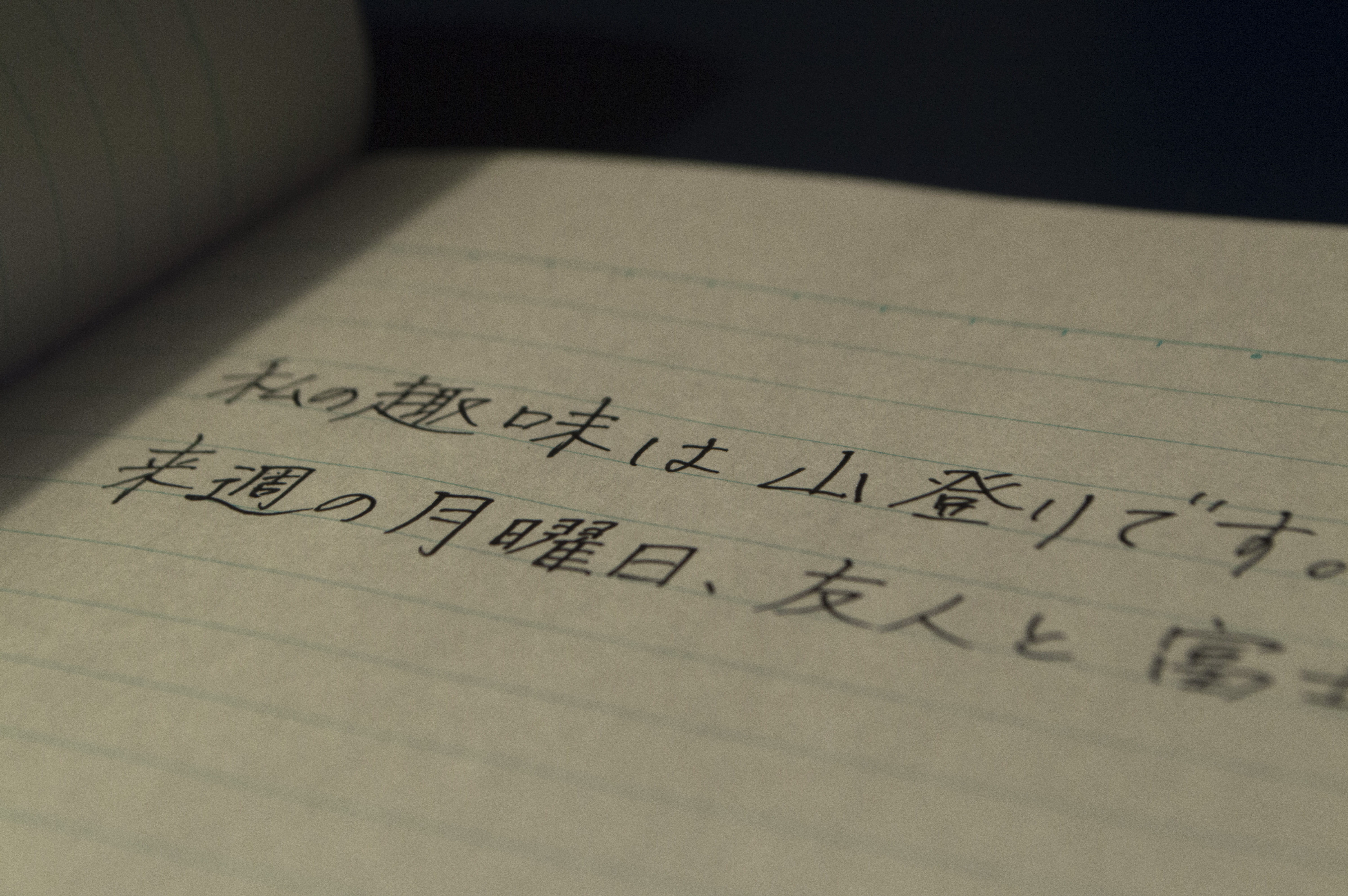 This picture shows what Japanese writing system (yokogaki) looks like.